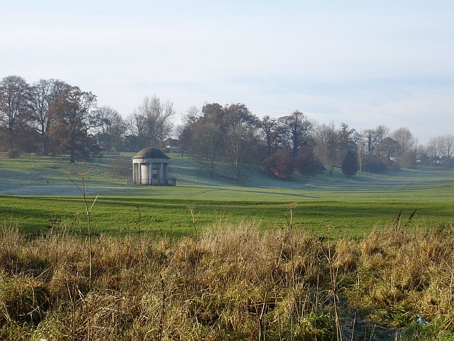 The Pavilion, Mote Park, Maidstone